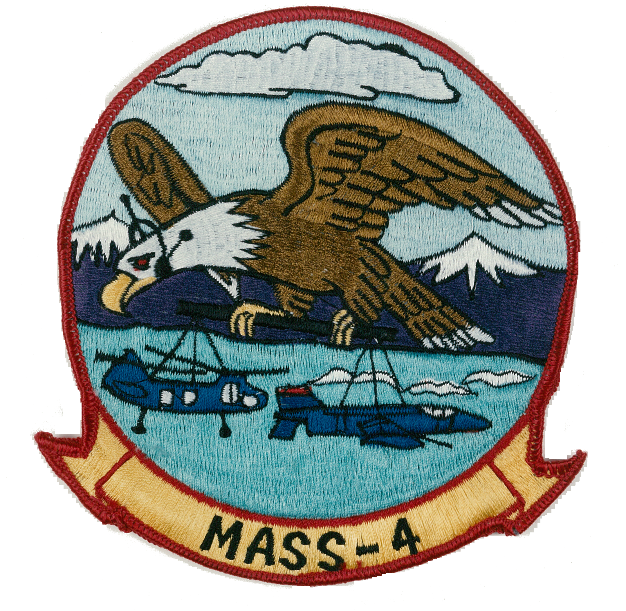 Picture taken of a Marine Air Support Squadron 4 (MASS-4) squadron patch. MASS-4 is an inactive unit of the United States Marine Corps reserve.